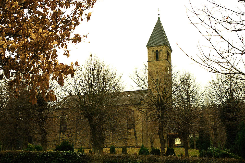 protestant church in Witten-Rüdinghausen